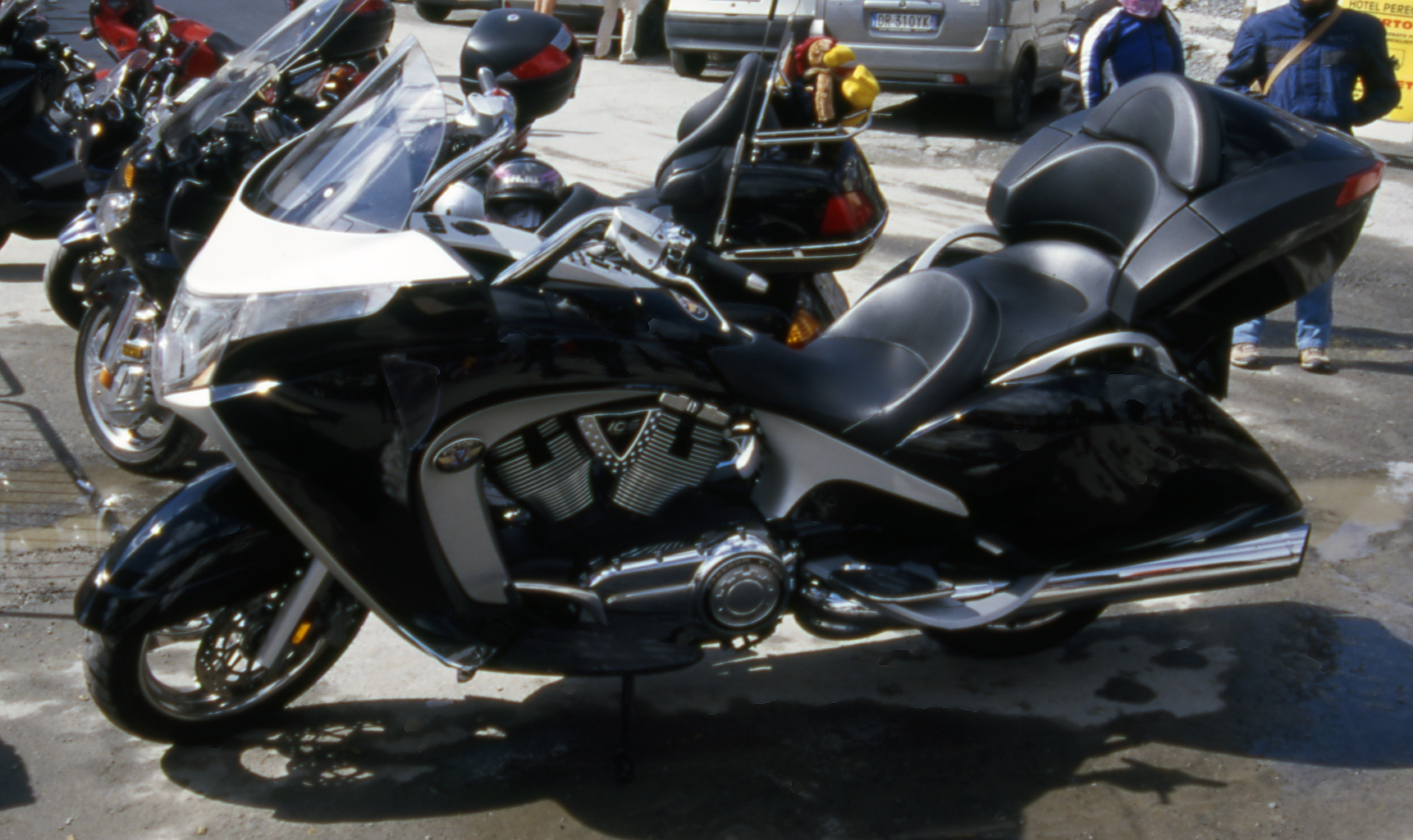 Victory Vision Tour auf dem Stilfserjoch im August 2010